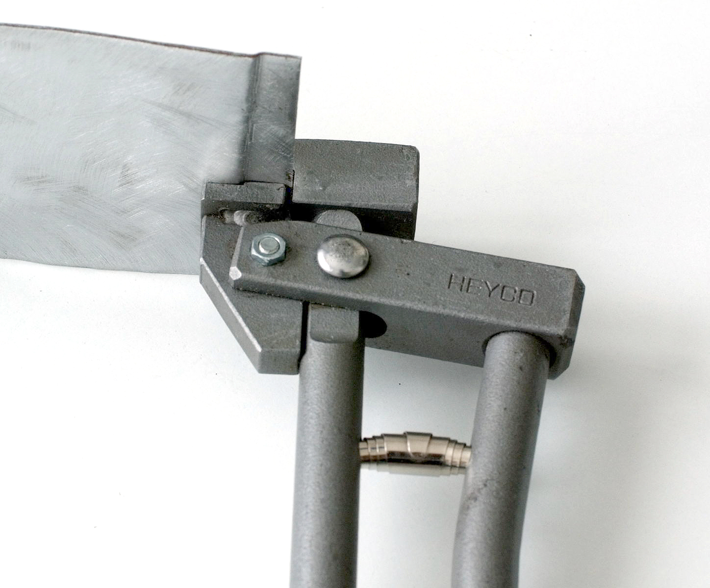 joggling tool in usage